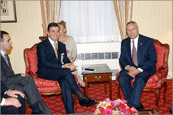 Secretary Colin Powell meets with President Svetozar Marovic of Serbia Montenegro in New York, September 24, 2003, during the UN General Assembly.